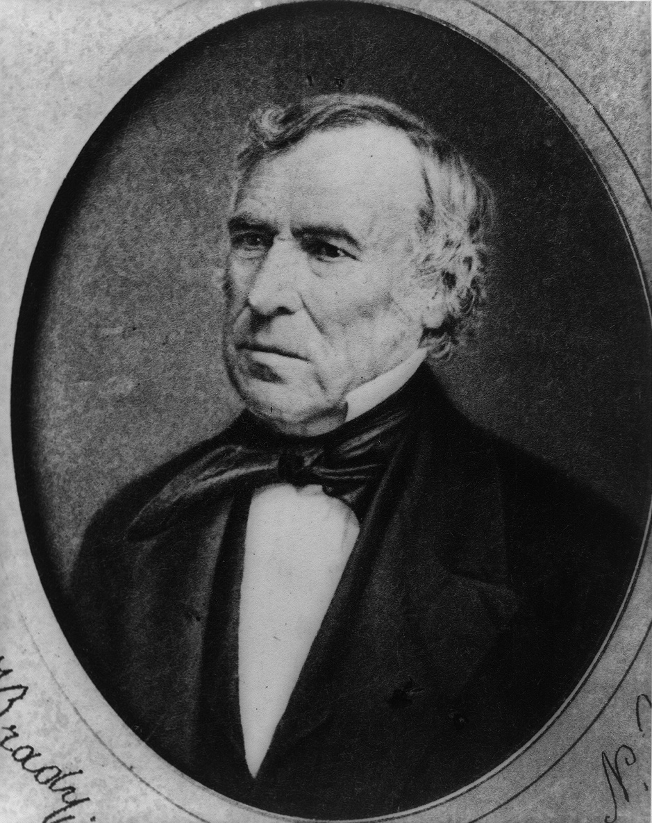 President Zachary Taylor.